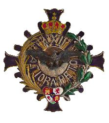 Star of the Order of Alfonso XIII, Private collection, Groningen